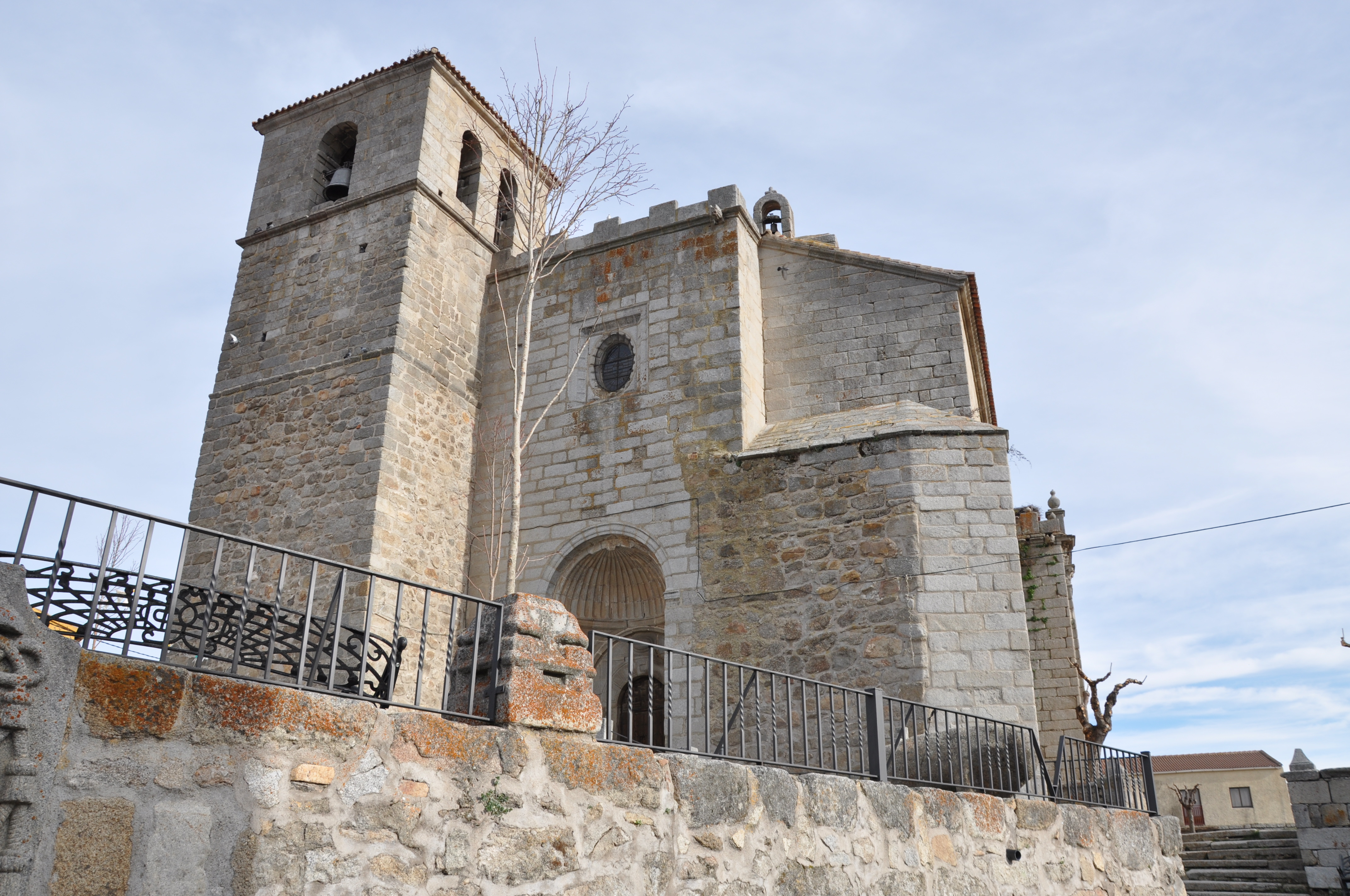 Church of San Miguel Arcángel, Villatoro, AV, Spain